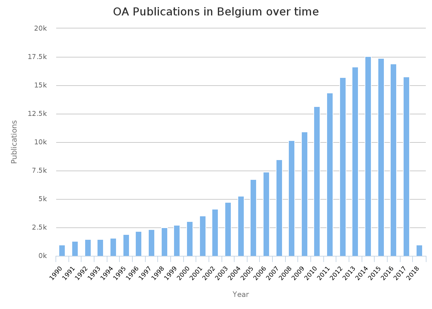 Bar graph describing open access to scholarly communication in Belgium